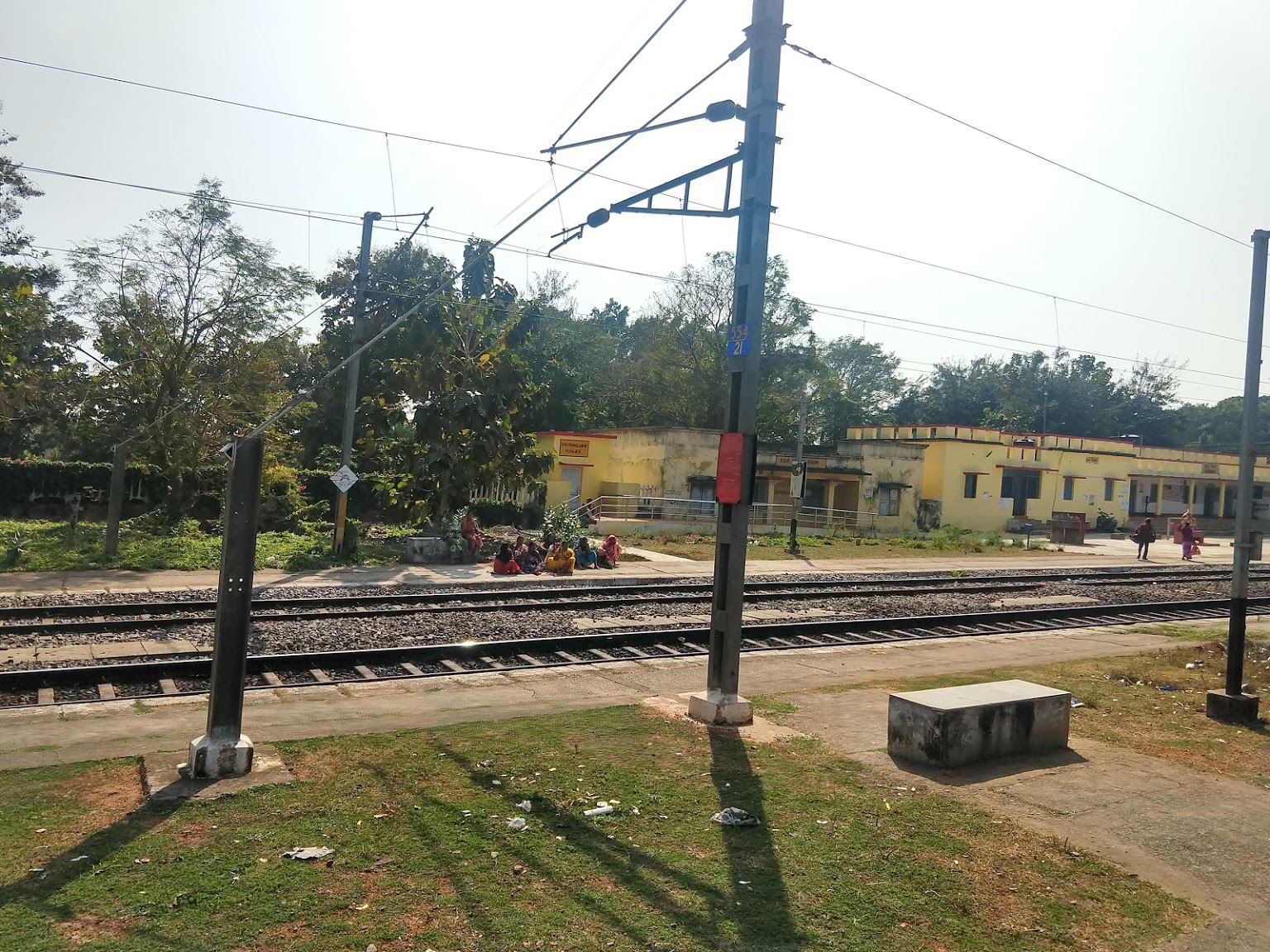 This is the Picture of Rambha railway station